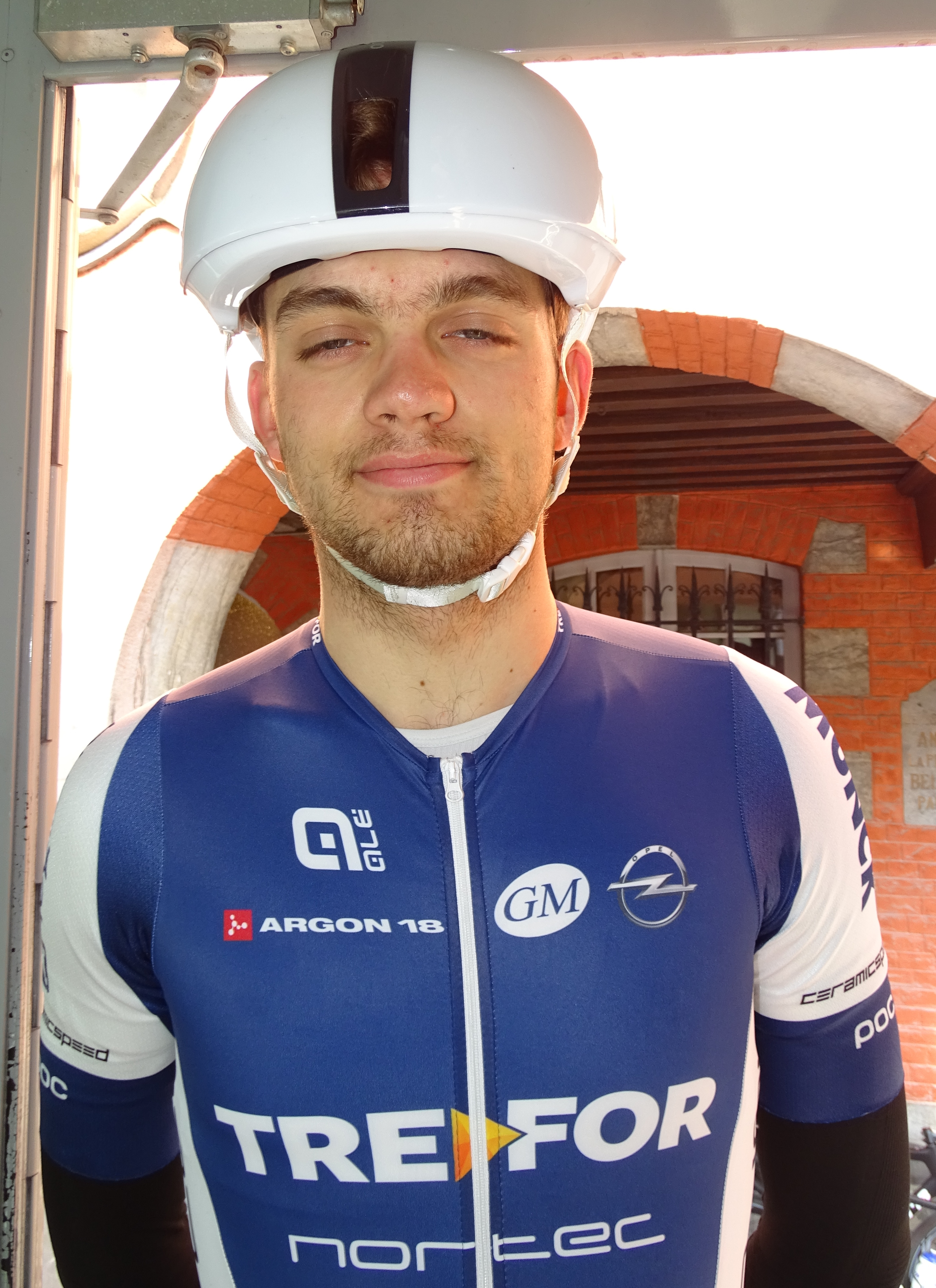 Triptyque des Monts et Châteaux 2016 Depicted person: Depicted team: Trefor